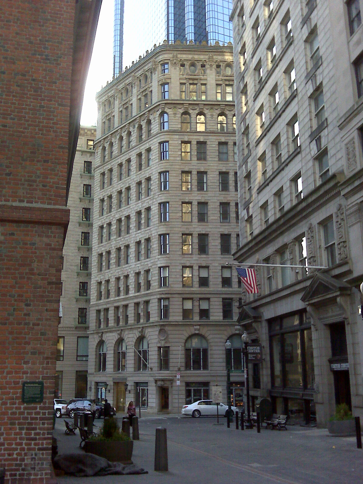 Photograph of the Second Brazer Building located at 25 State Street, Boston Massachusetts, listed on the National Register of Historic Places.